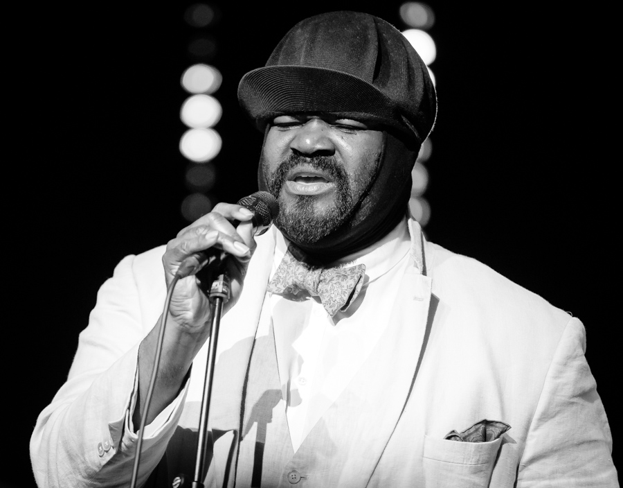 Gregory Porter in Kongsberg Musikkteater. The concert was part of Kongsberg Jazzfestival and took place on 05. July 2018 in Kongsberg. Lineup:Gregory Porter (vocal)Chip Crawford (piano)Emanuel Harrold (drums)Tivon Pennicott (saxophone)Jahmal Nichols (double bass)